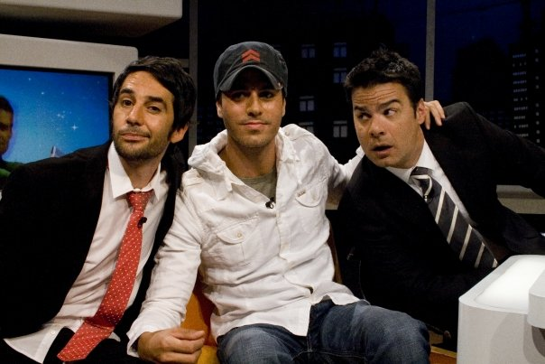 Photo shot created for the 2nd season of the show.